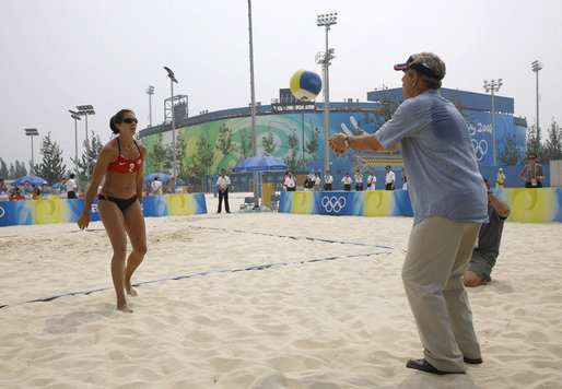 President George W. Bush hits a volleyball back to U.S. Women's Beach Volleyball team member Misty May-Treanor, left, during his visit to the Chaoyang Park practice courts Saturday, Aug. 9, 2008, before the U.S. team began their matches at the 2008 Summer Olympics in Beijing.